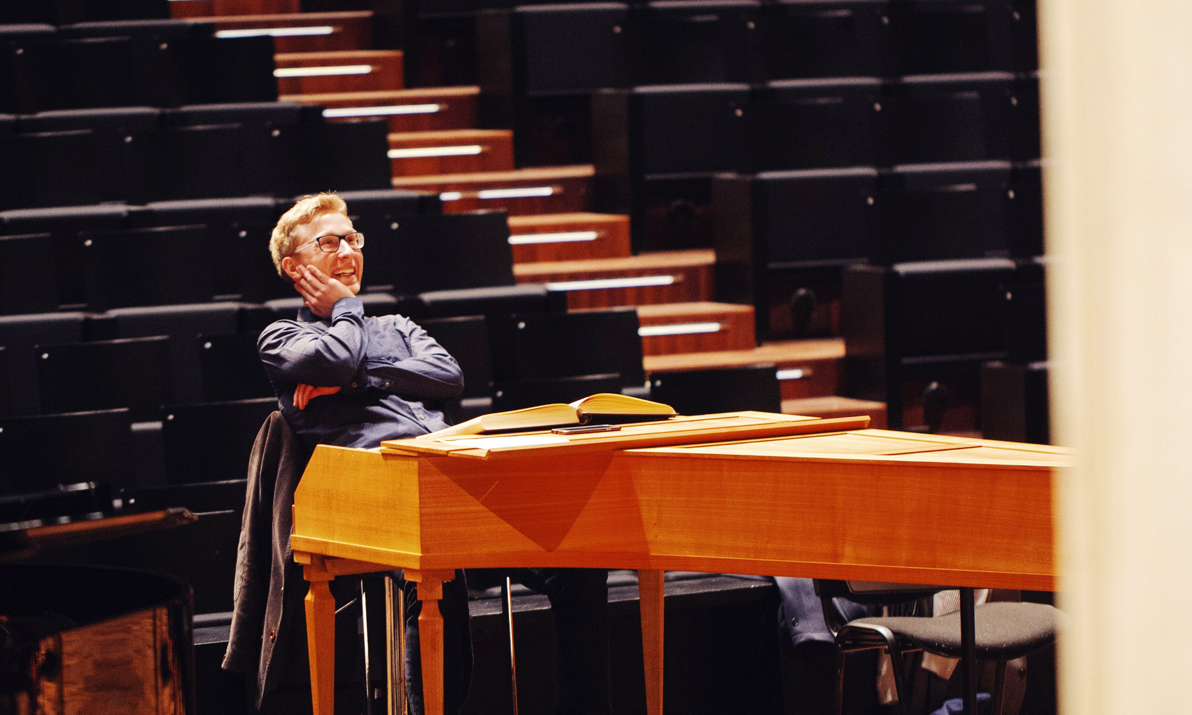 Conductor Patrick Hahn on the fortepiano